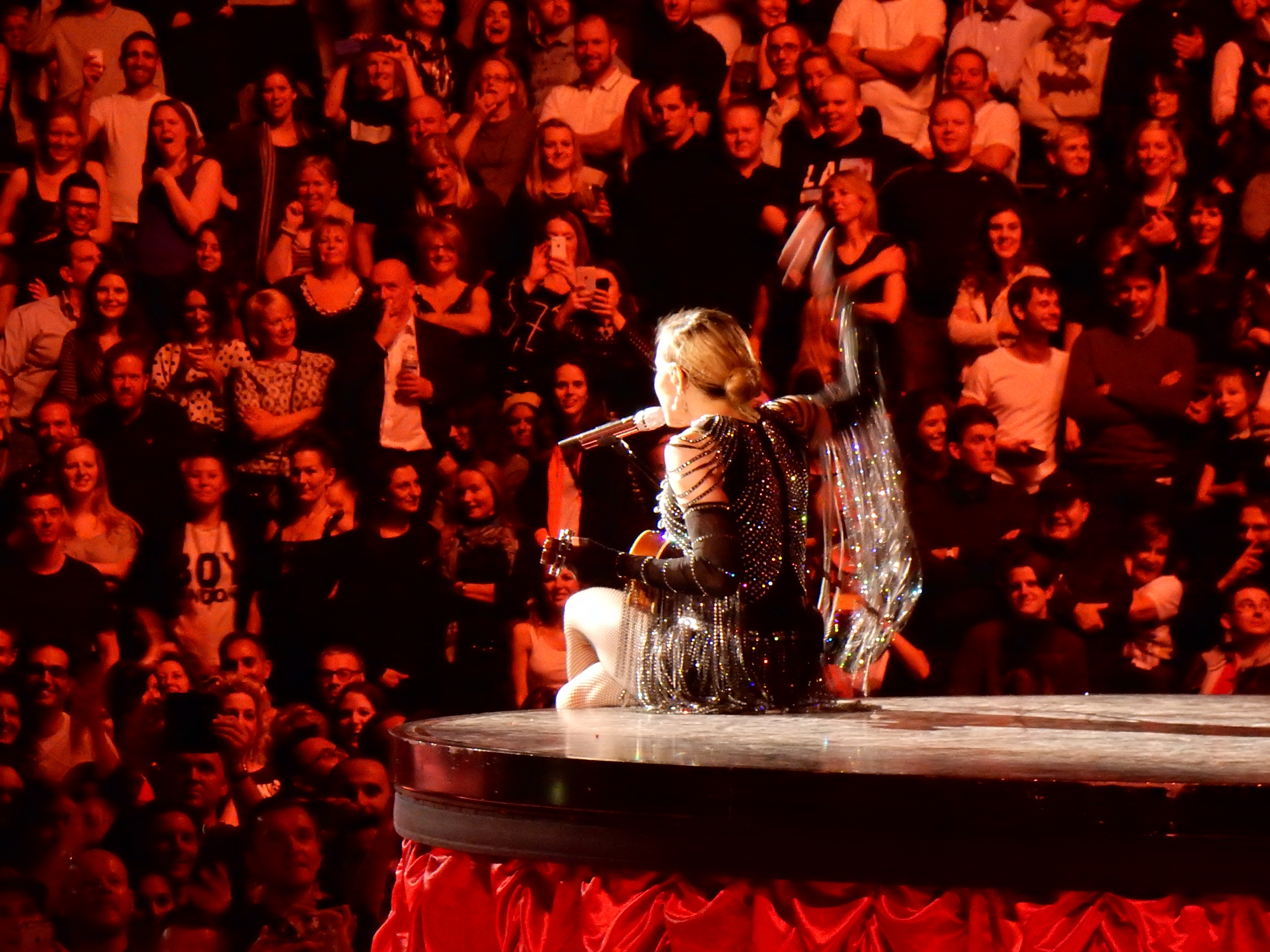 Madonna - Rebel Heart Tour 2015 - London 2